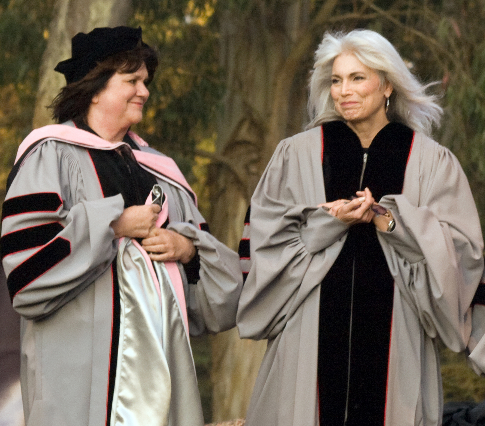 Honorary Doctorate From Berklee Presentation, 2009